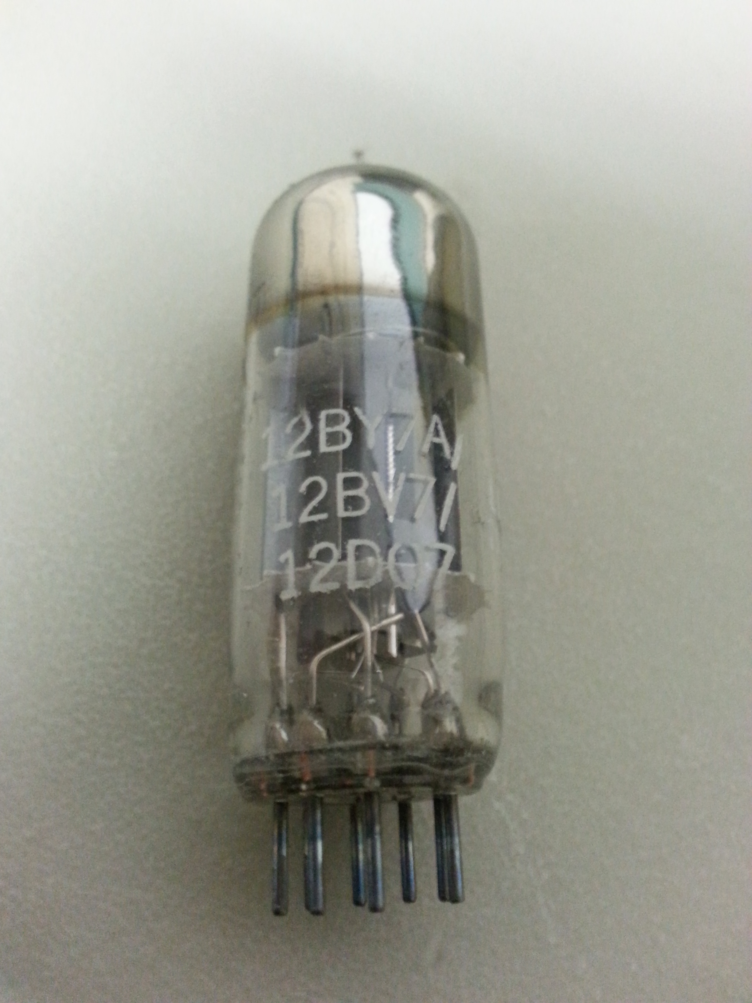 General Electric 12DQ7 vacuum tube with multiple equivalents marked on tube body